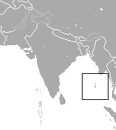 Andaman Shrew (Crocidura andamanensis) range